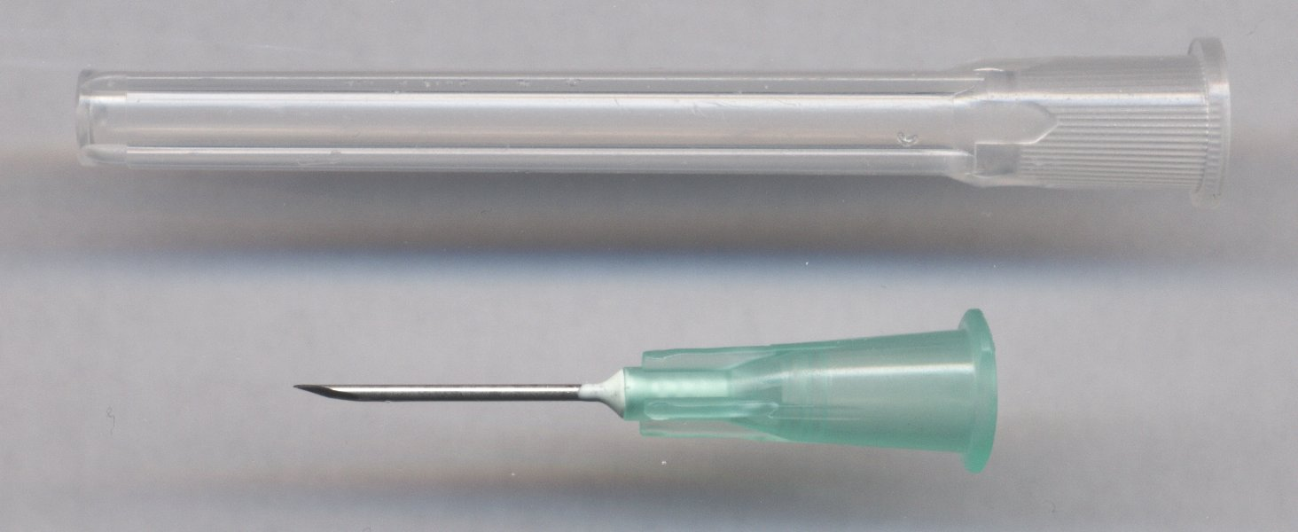 21 gauge disposable hypodermic needle with luer fitting and needle cap. Image made in March 2006. By me.